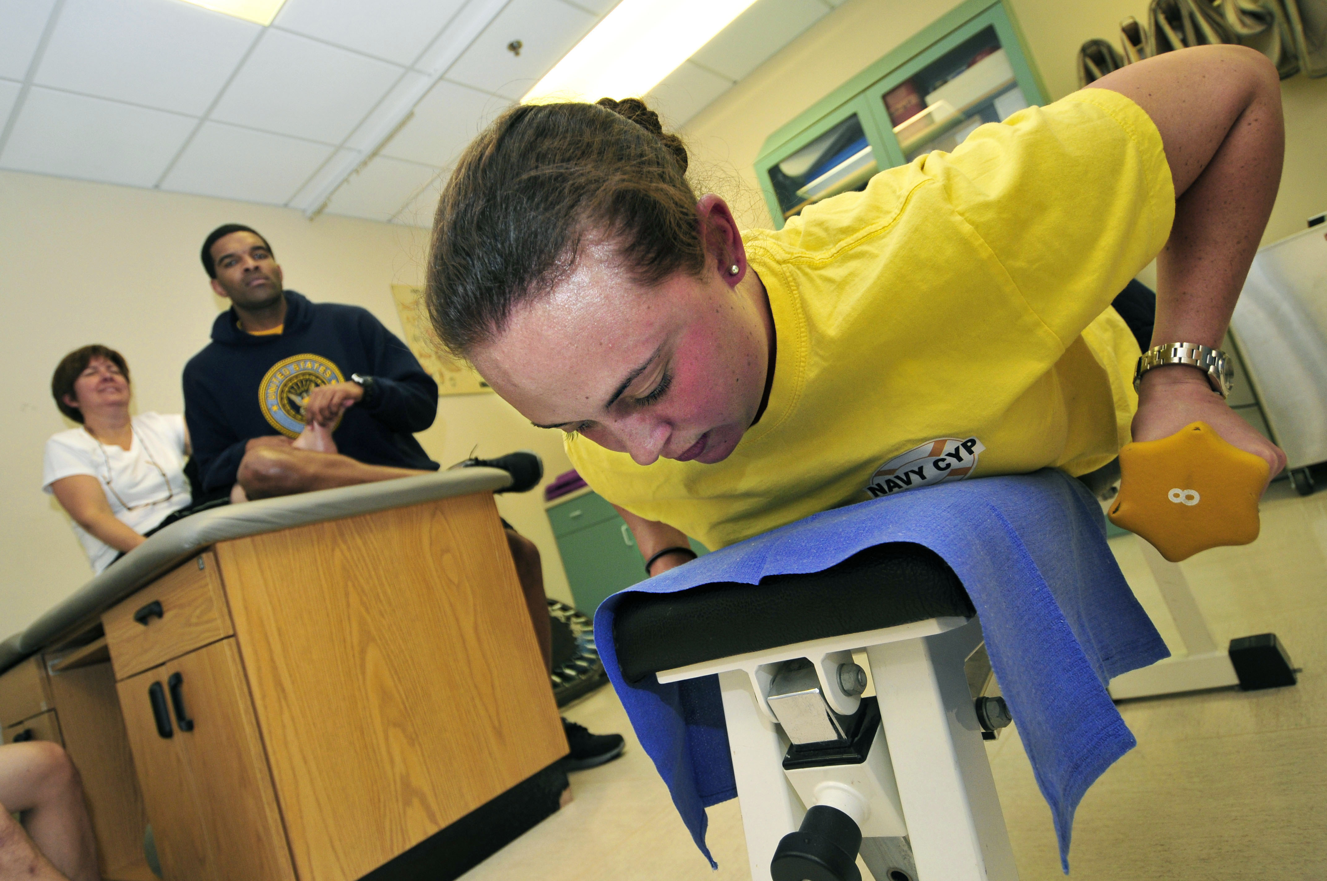 NAPLES, Italy (Nov. 2, 2011) Operations Specialist 1st Class Jennifer Funderburk, right, lifts weights during physical therapy in the Physical Therapy Department at the U.S. Naval Hospital Naples. (U.S. Navy photo by Mass Communication Specialist 2nd Class Felicito Rustique/Released)